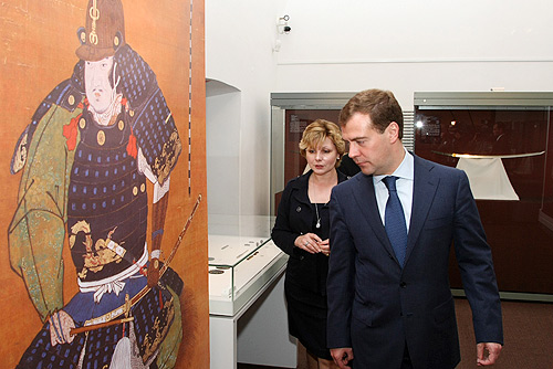 THE KREMLIN, MOSCOW. At the exhibition Samurais: The Treasures of Japan’s Warrior Nobility. With General Director of the Moscow Kremlin Museum Yelena Gagarina.